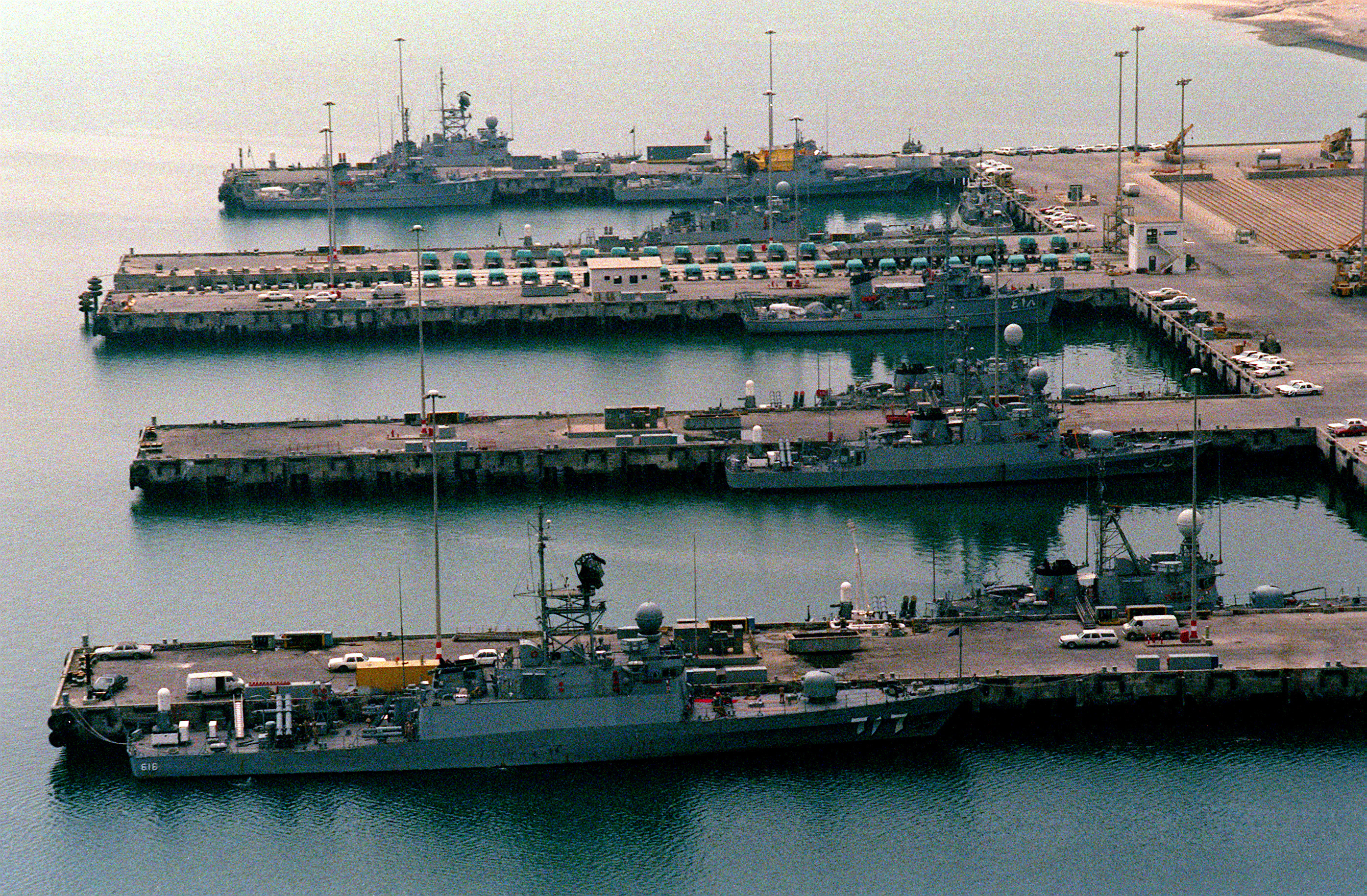 Various ships of the Saudi Arabian Navy are docked at the base PORT JUBAIL during Operation DESERT SHIELD. DM-SC-91-12021